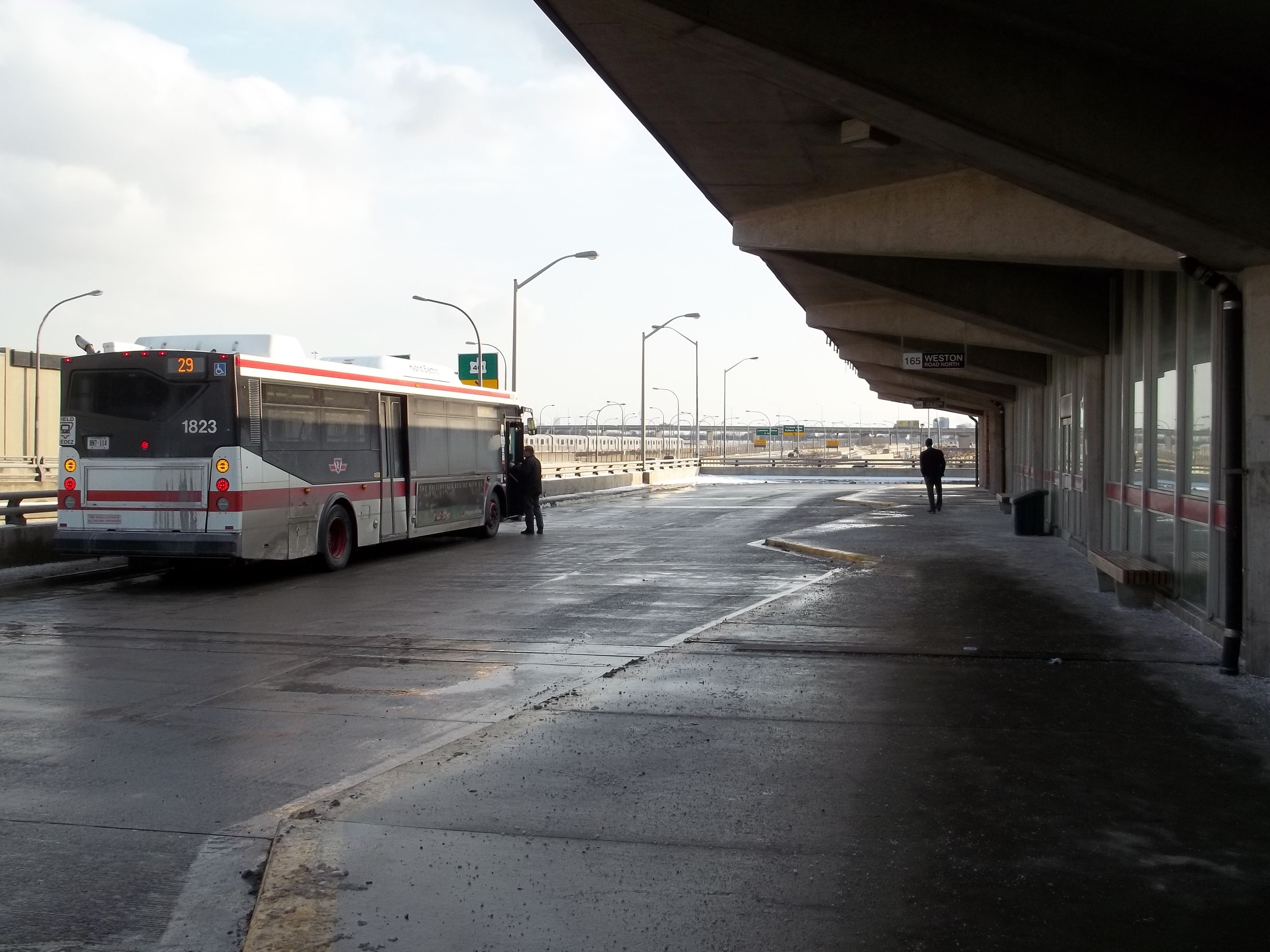 Wilson TTC subway station in Toronto. Note:These pictures are wrongly annotated as "Inside Downsview TTC"